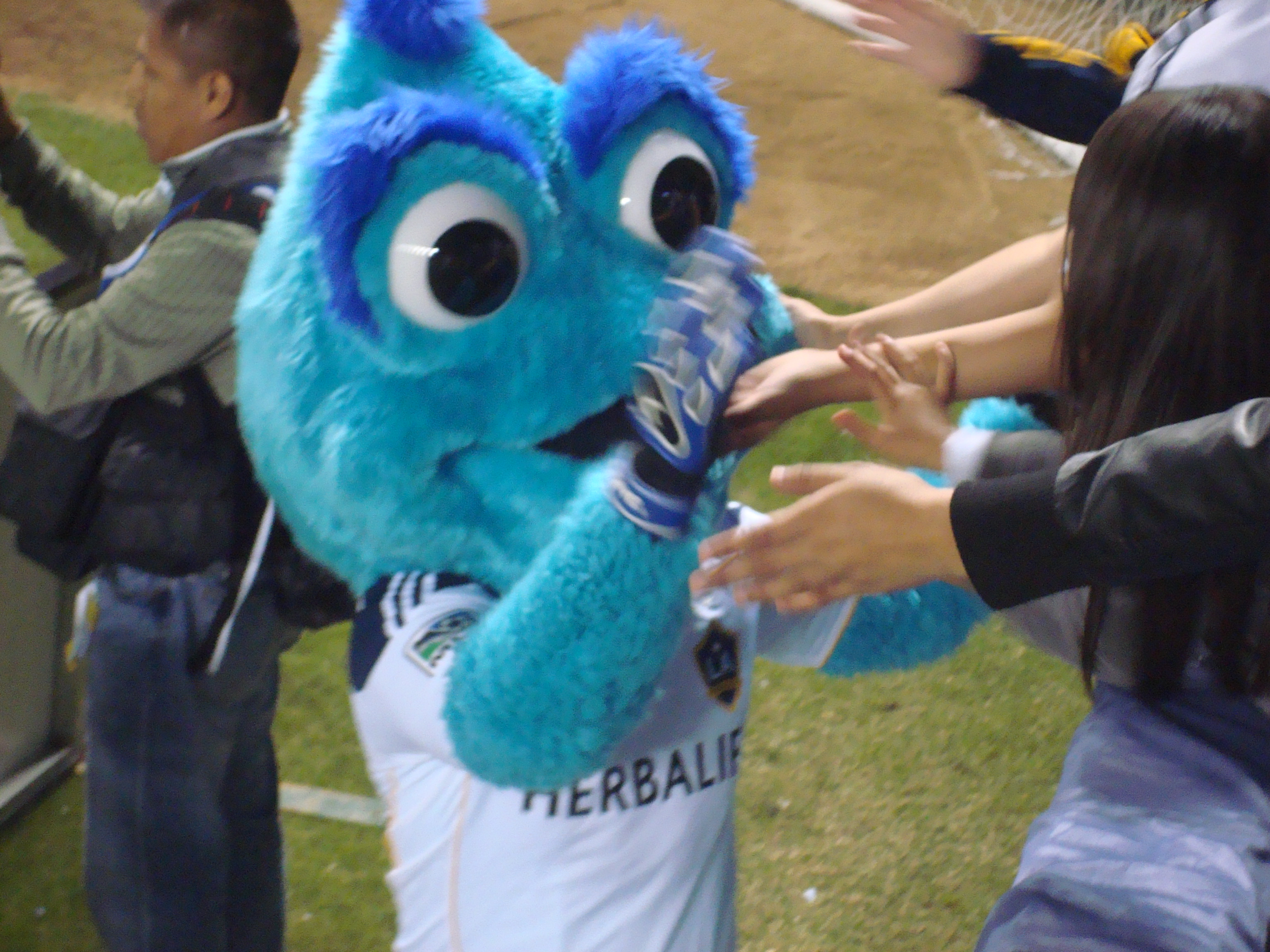 This here is a picture of LA Galaxy mascot Cozmo!